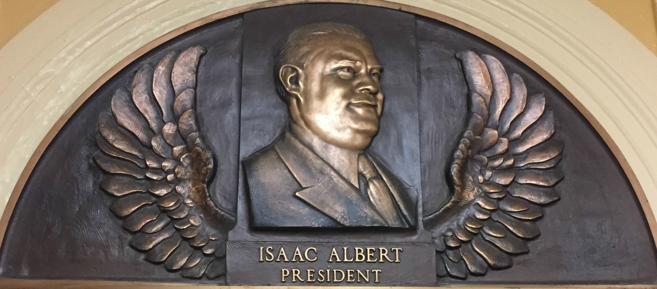 former President of The Jewish Hospital and Sanitarium for Chronic Diseases